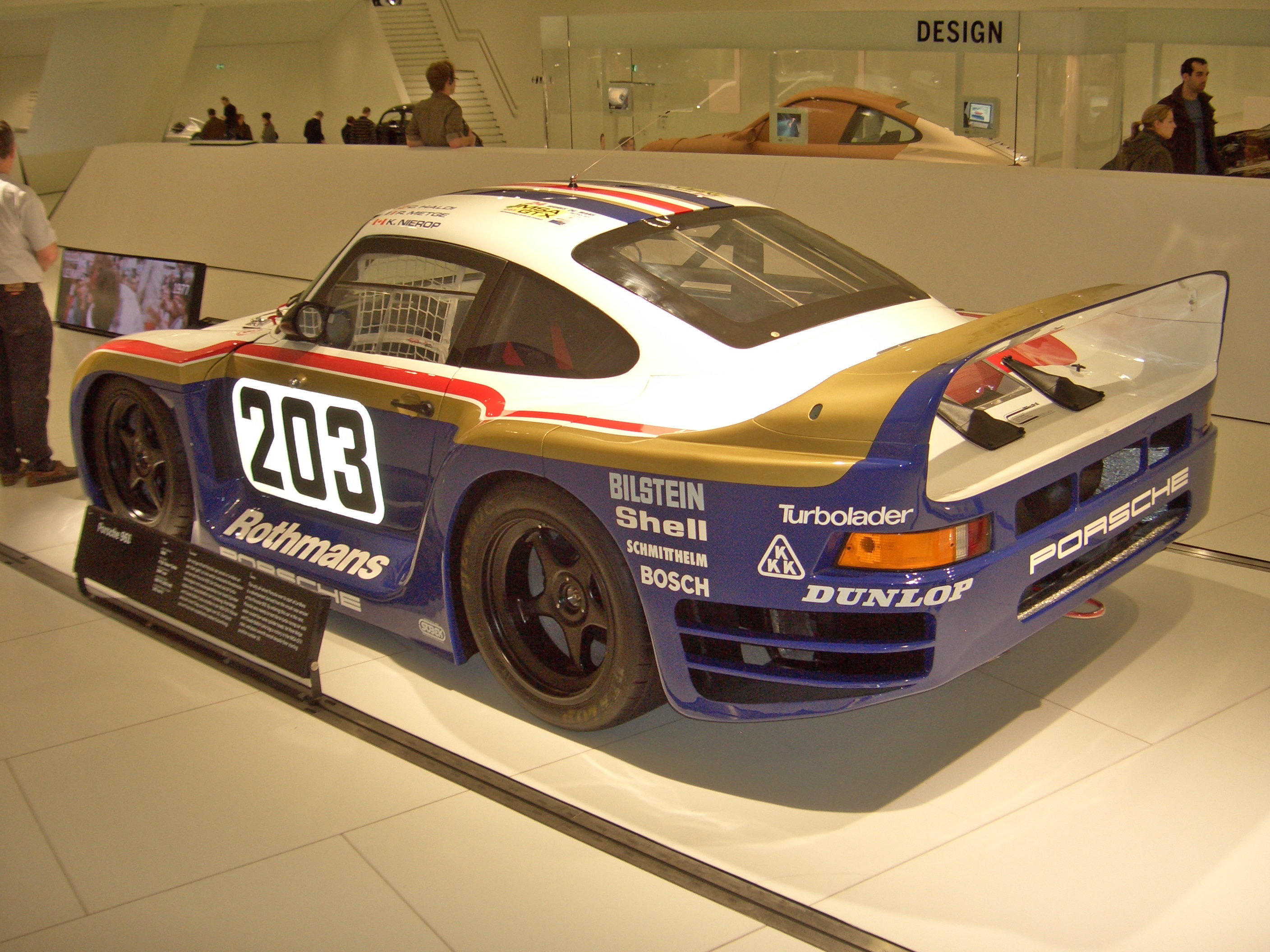 Porsche 961 Coupe (1986) - "Rothmans livery" for 1987 24 Hours of Le Mans (1986 livery was "total white" with Porsche logo on doors) - seen at PORSCHE MUSEUM in Stuttgart, Germany